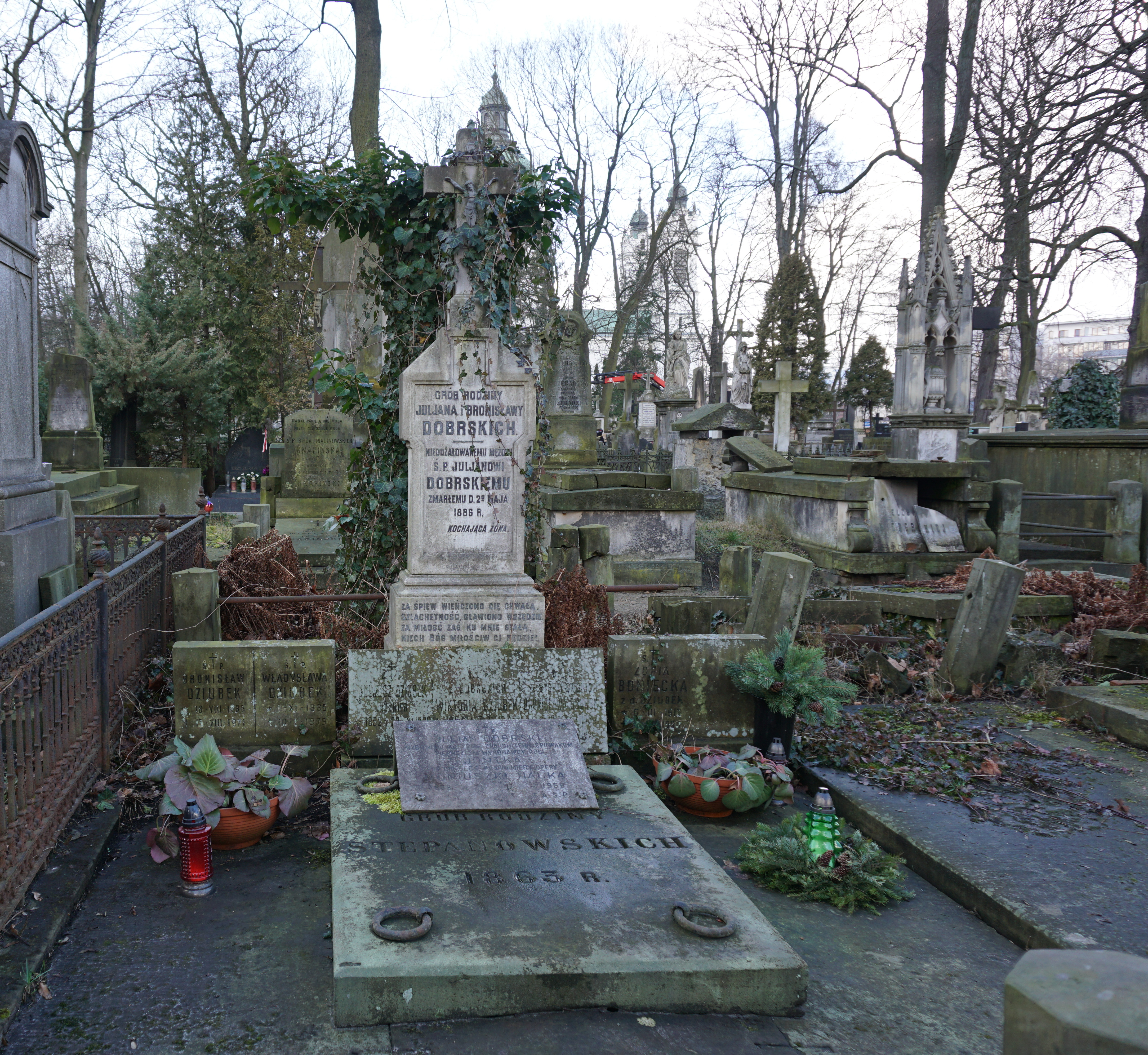 The grave of Julian Dobrski at the Powązki Cemetery (section 181, row 3, grave 26, 27)